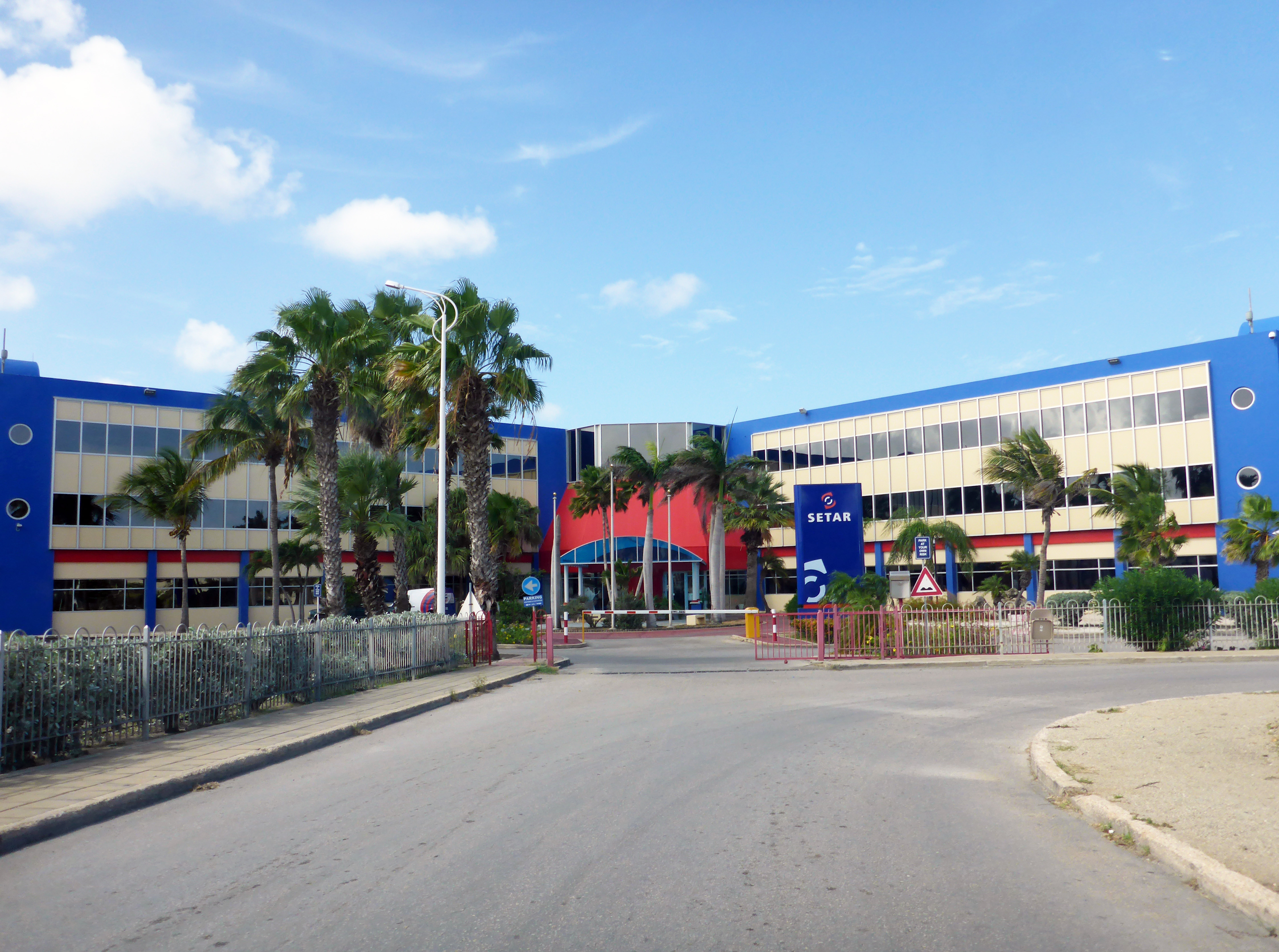 The headquarters of Setar NV in Oranjestad, Aruba. Photographed by user Coolcaesar on November 30, 2014.